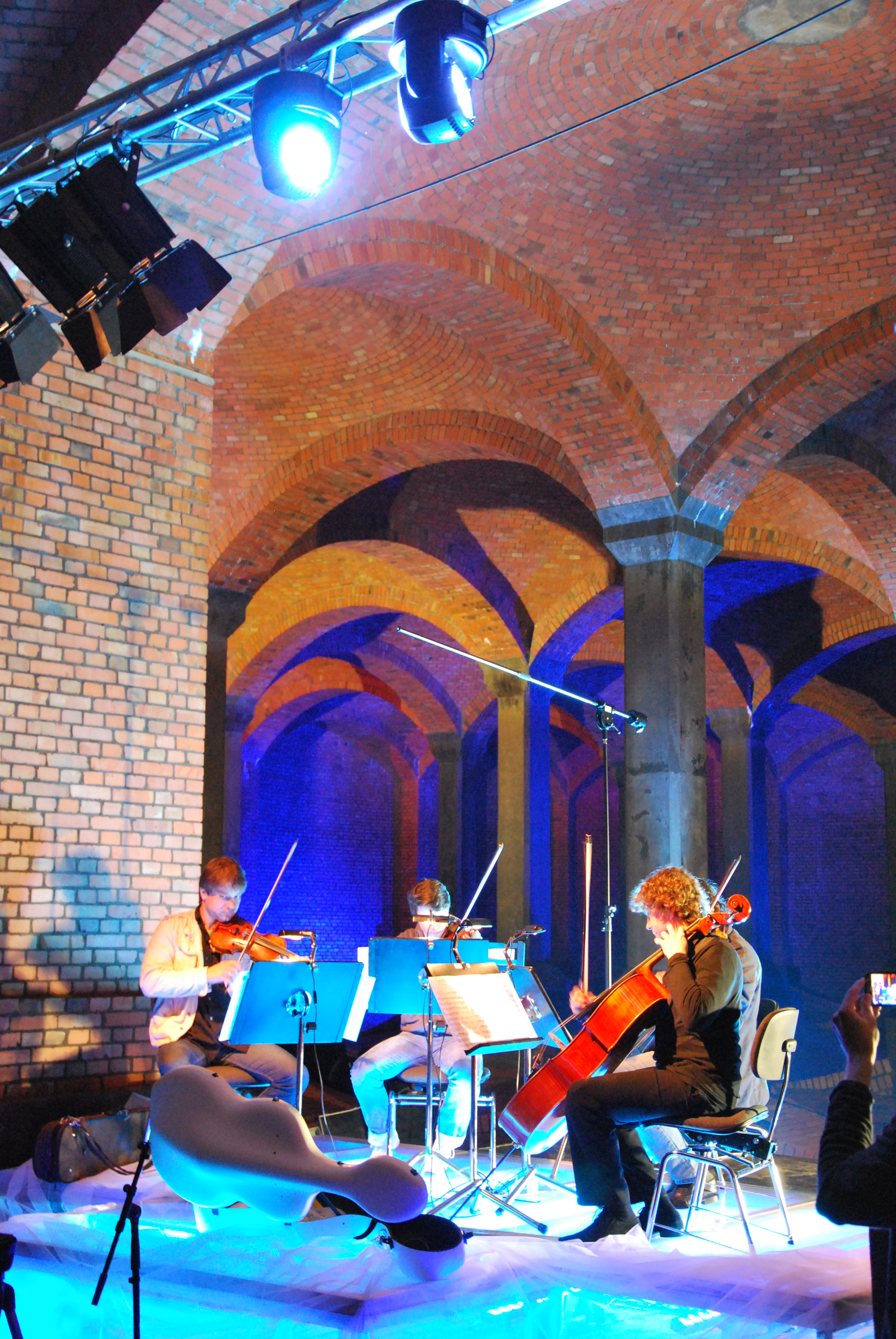 String quartet into underground water tank in Stoki, Łódź